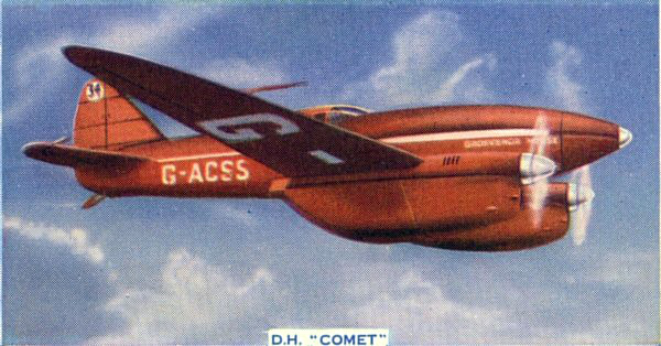 de Havilland DH.88 Comet racer G-ACSS Grosvenor House. No. 45 of a set of 50 collectors cards ""This Mechanized Age issued by Godfrey Phillips Ltd and associated companies, ca. 1935. Artist not identified, so UK Copyright contended to have lapsed 50 years after publication. Picture prepared for Wikipedia by Keith Edkins in April 2004.